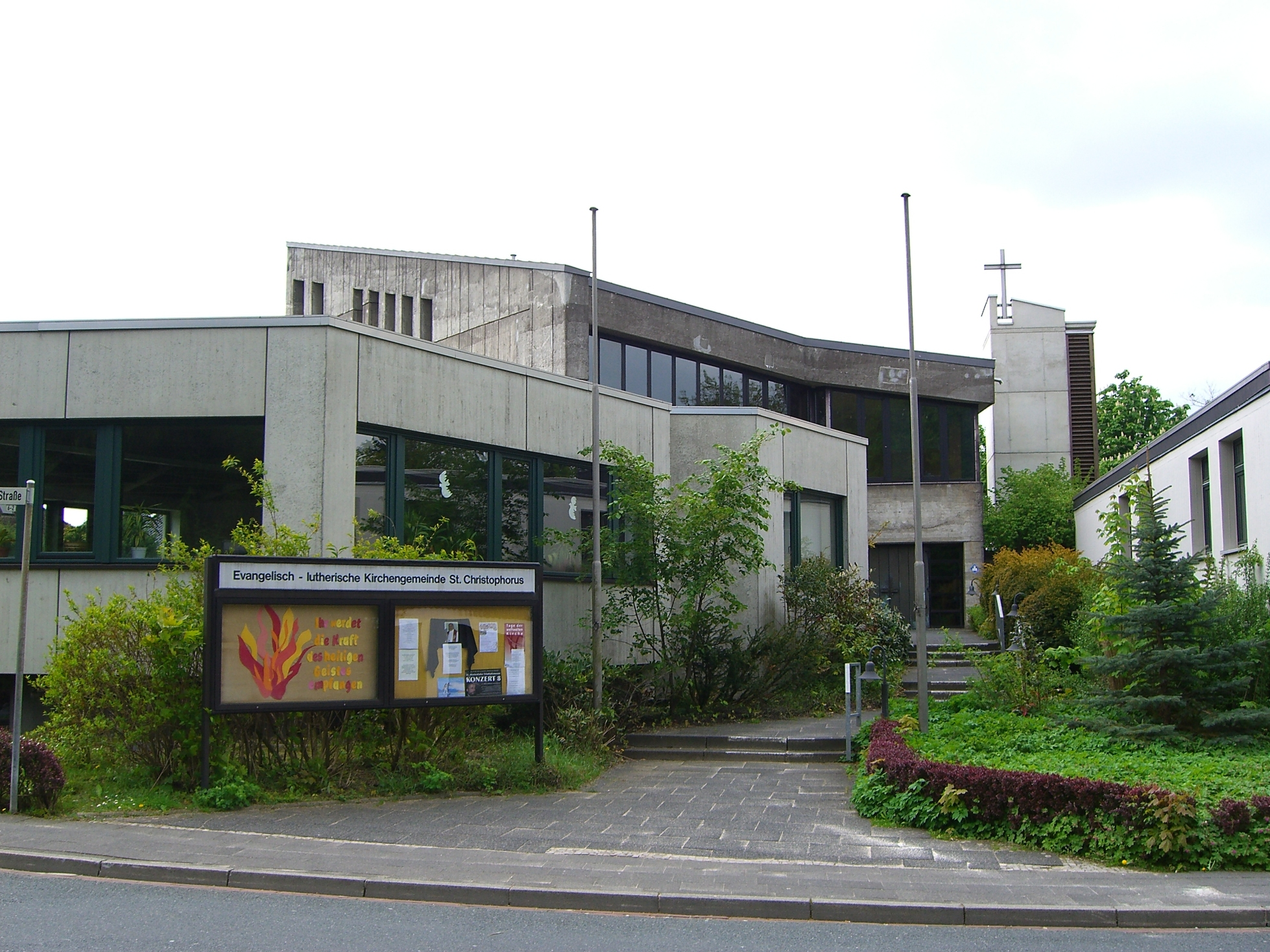 Evangelical-lutheran church "Saint Christopher" (St. Christophorus) in Helmstedt.